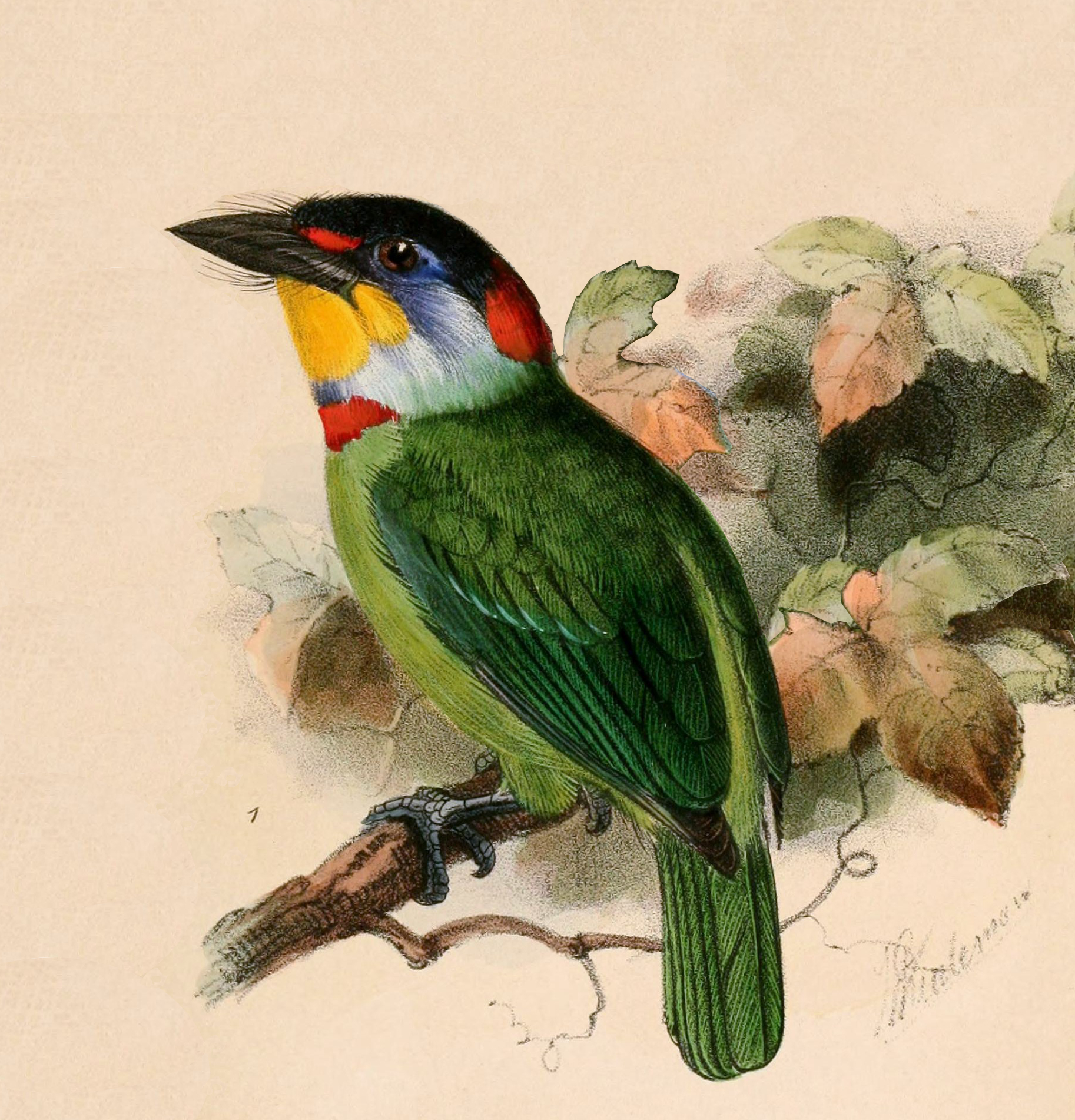 « Megalaema faber » = Megalaima faber (Chinese Barbet) « Megalaema nuchalis » = Megalaima nuchalis (Taiwan Barbet)